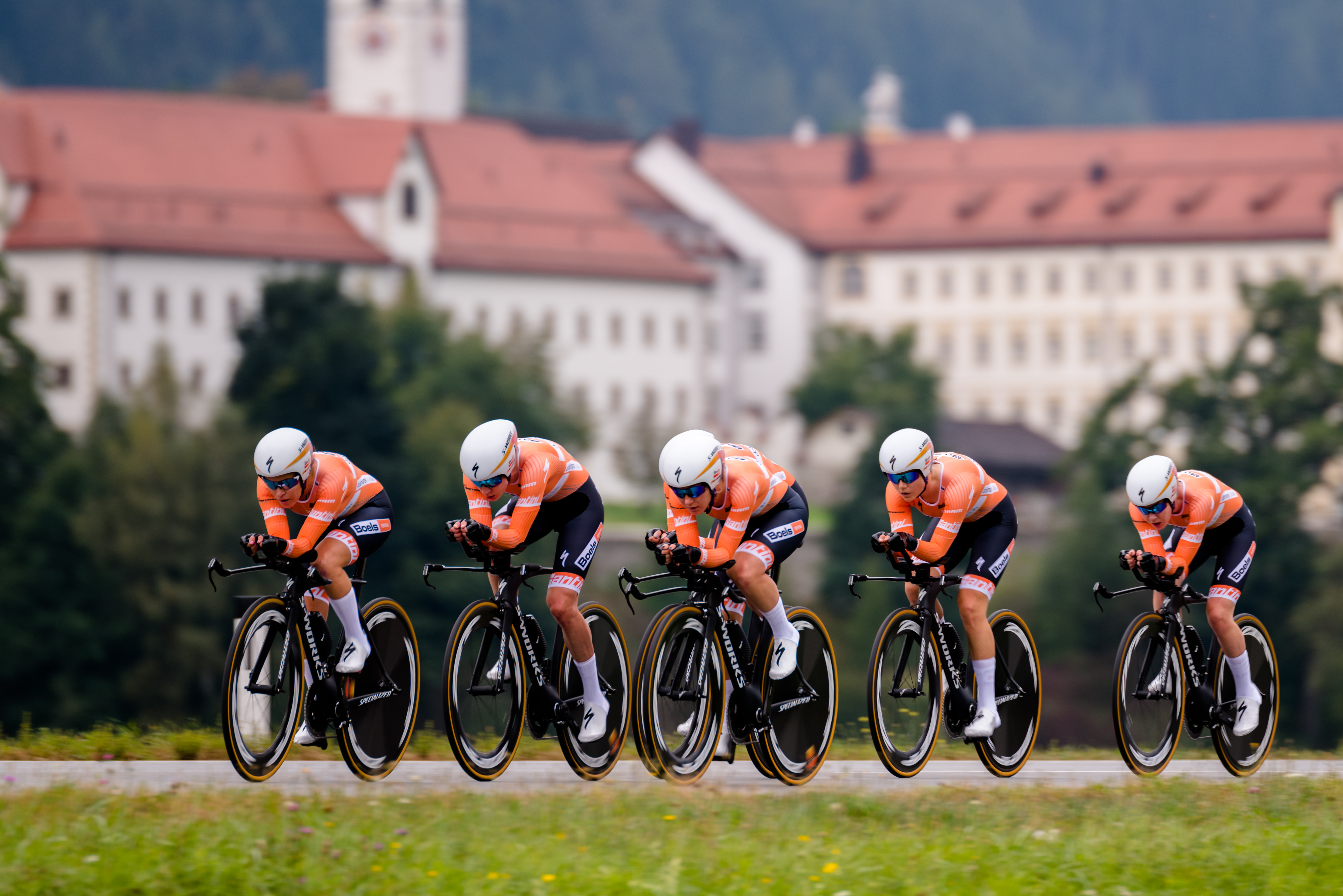 2018 UCI Road World Championships Innsbruck/Tirol Women's Team Time Trial. Picture shows: Team Boels Dolmans